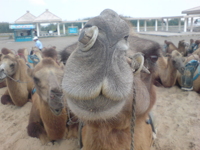 Domesticated Bactrian camels in a Mongolian theme park in Wuhai